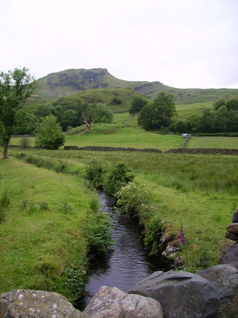 Naddle Beck Looking towards Dodd Crag from the bridge on the road to St. Johns Church